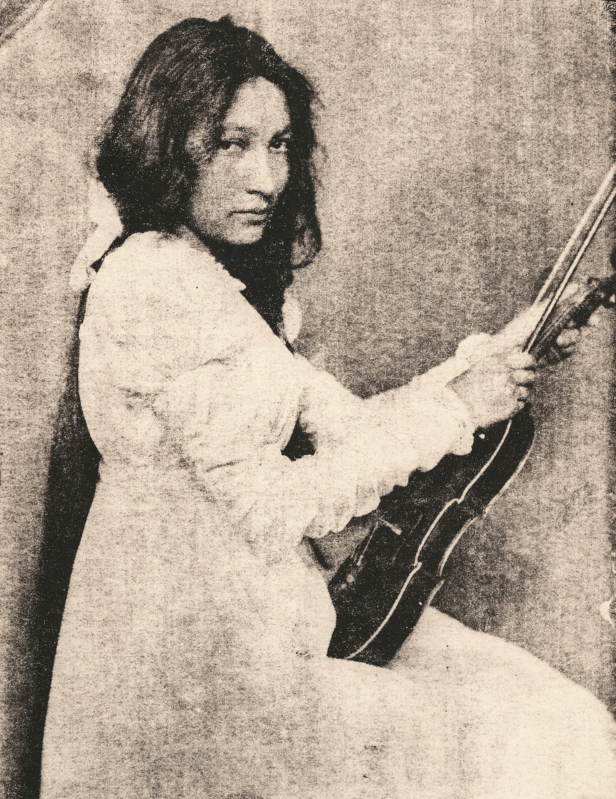 In addition to photographing the Sioux performers sent by Buffalo Bill Cody to her studio, Käsebier was able to arrange a portrait session with Zitkala Sa, "Red Bird," also known as Gertrude Simmons (1876-1938), a Yankton Sioux woman of Native American and white mixed ancestry. She was born on the Pine Ridge Reservation in South Dakota, like many of the Sioux traveling with the Wild West show. She was educated at reservation schools, the Carlisle Indian School, Earlham College in Indiana, and the Boston Conservatory of Music. Zitkala Sa became an accomplished author, musician, composer, and dedicated worker for the reform of United States Indian policies. Käsebier photographed Zitkala Sa in tribal dress and western clothing, clearly identifying the two worlds in which this woman lived and worked. In many of the images, Zitkala Sa holds her violin or a book, further indicating her interests. Käsebier experimented with changing backdrops, including a Victorian floral print, and photographic printing. She used the painterly gum-bichromate process for several of these images, adding increased texture and softer tones to the photographs.